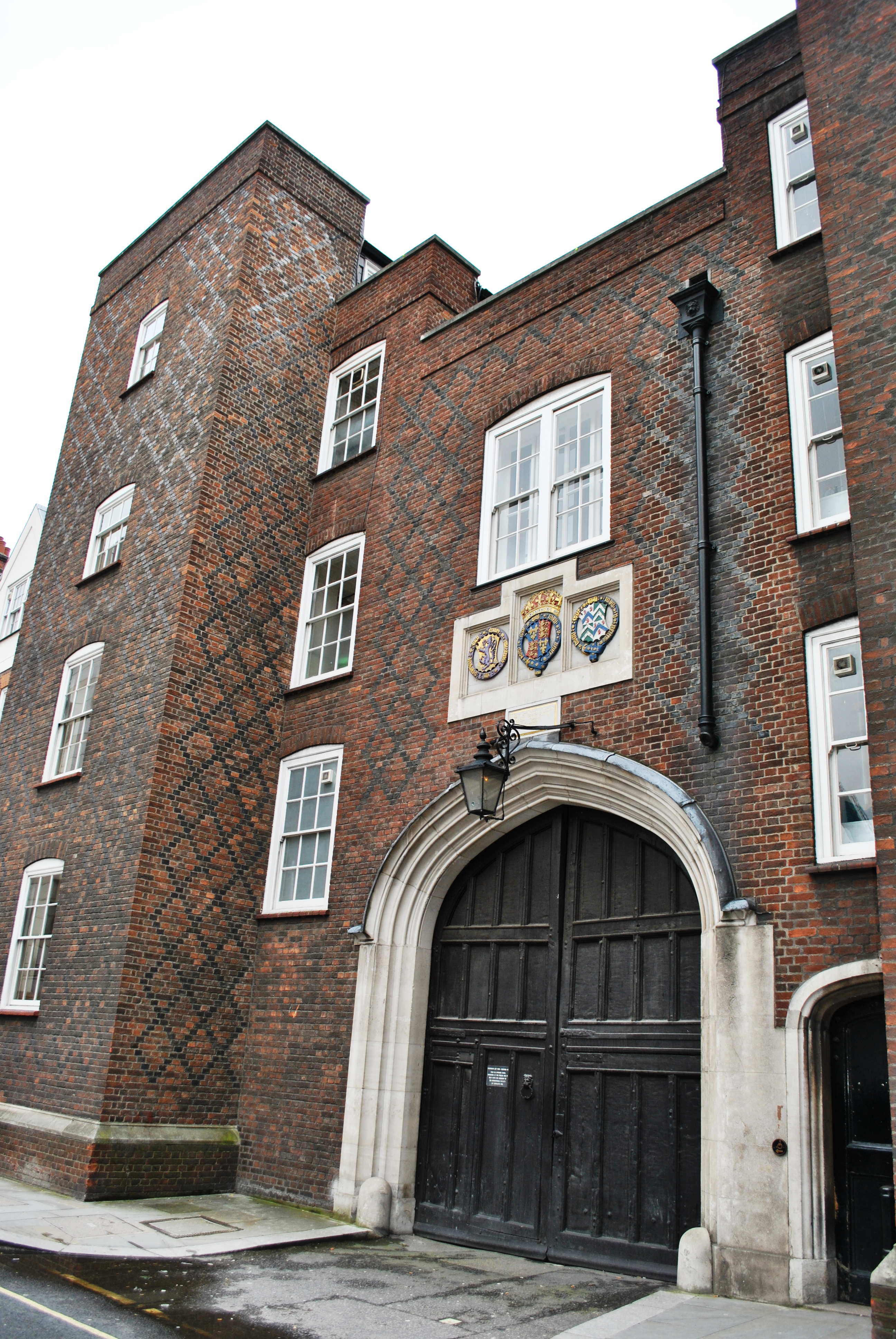 Lincoln's Inn